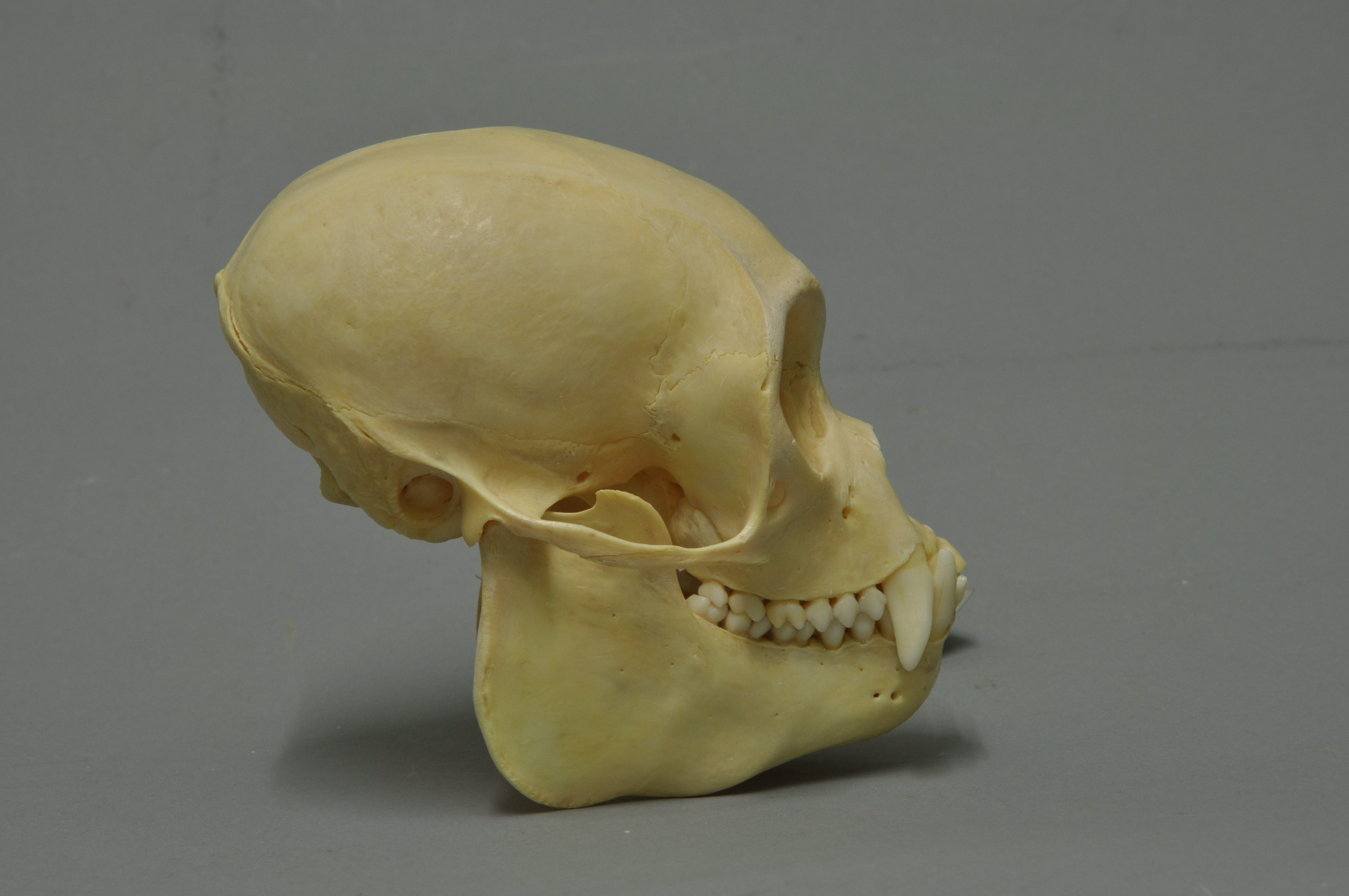 brown woolly monkeyLagothrix lagotricha, skull, Coll. Museum Wiesbaden